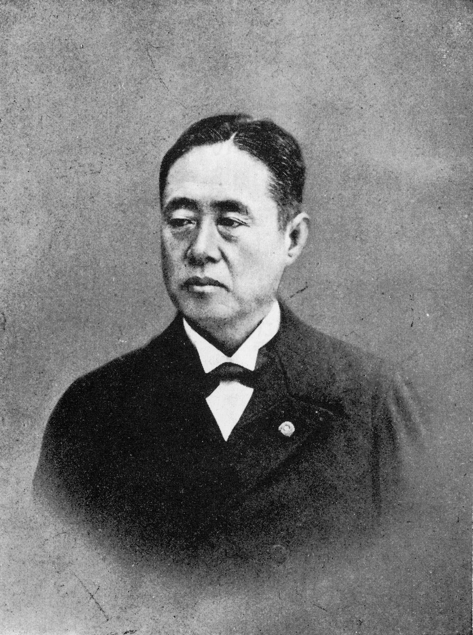 Later years of Kataoka Kenkichi.